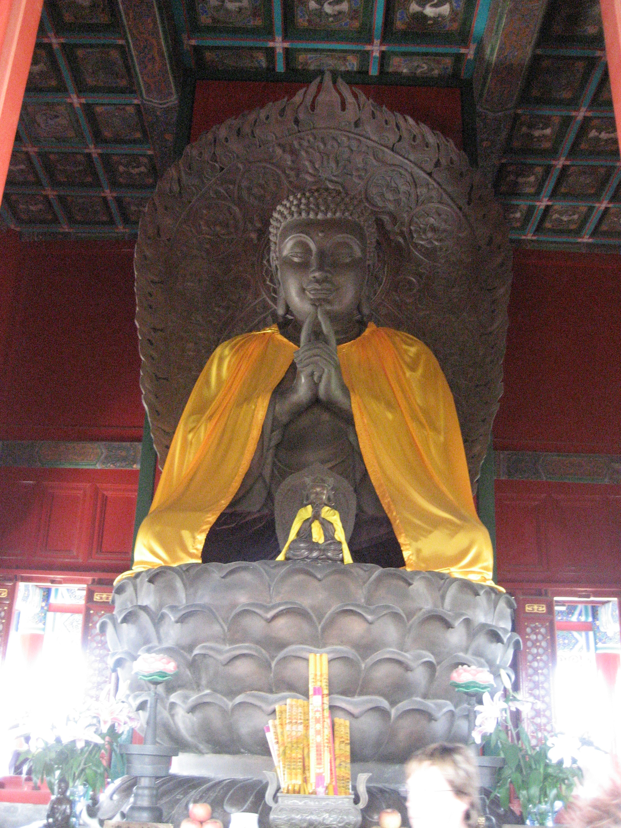 Image of Buddha at Jiangshen Park, China